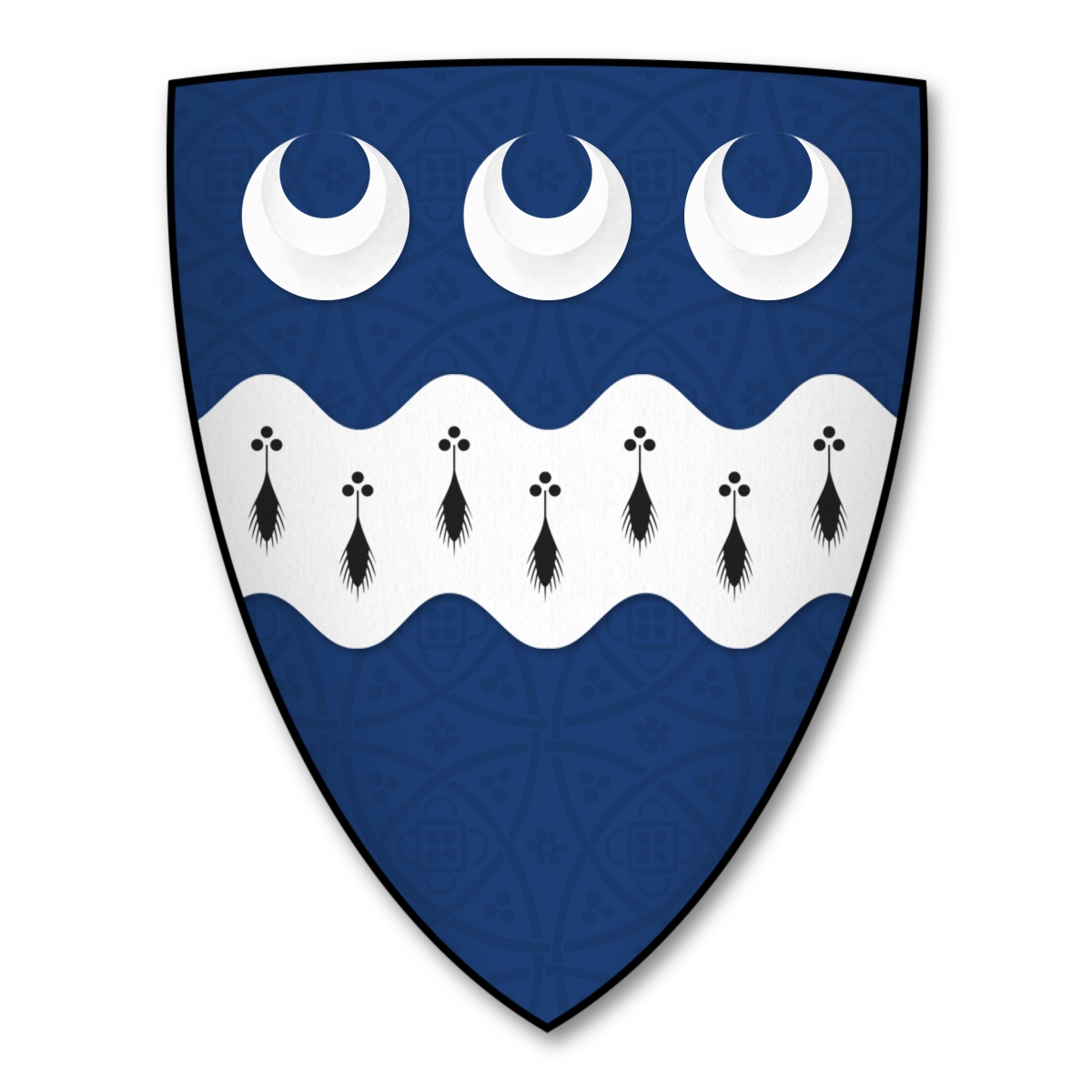 Armorial Bearings of the BRIGHT family of Colwall, Herefordshire Arms: Azure, a fess wavy ermine, in chief three crescents argent. Strong, George (1848) The Heraldry of Herefordshire: Being a Collection of the Armorial Bearings of Families Which Have Been Seated in the County at Various Periods Down to the Present Time., London: Churton Press